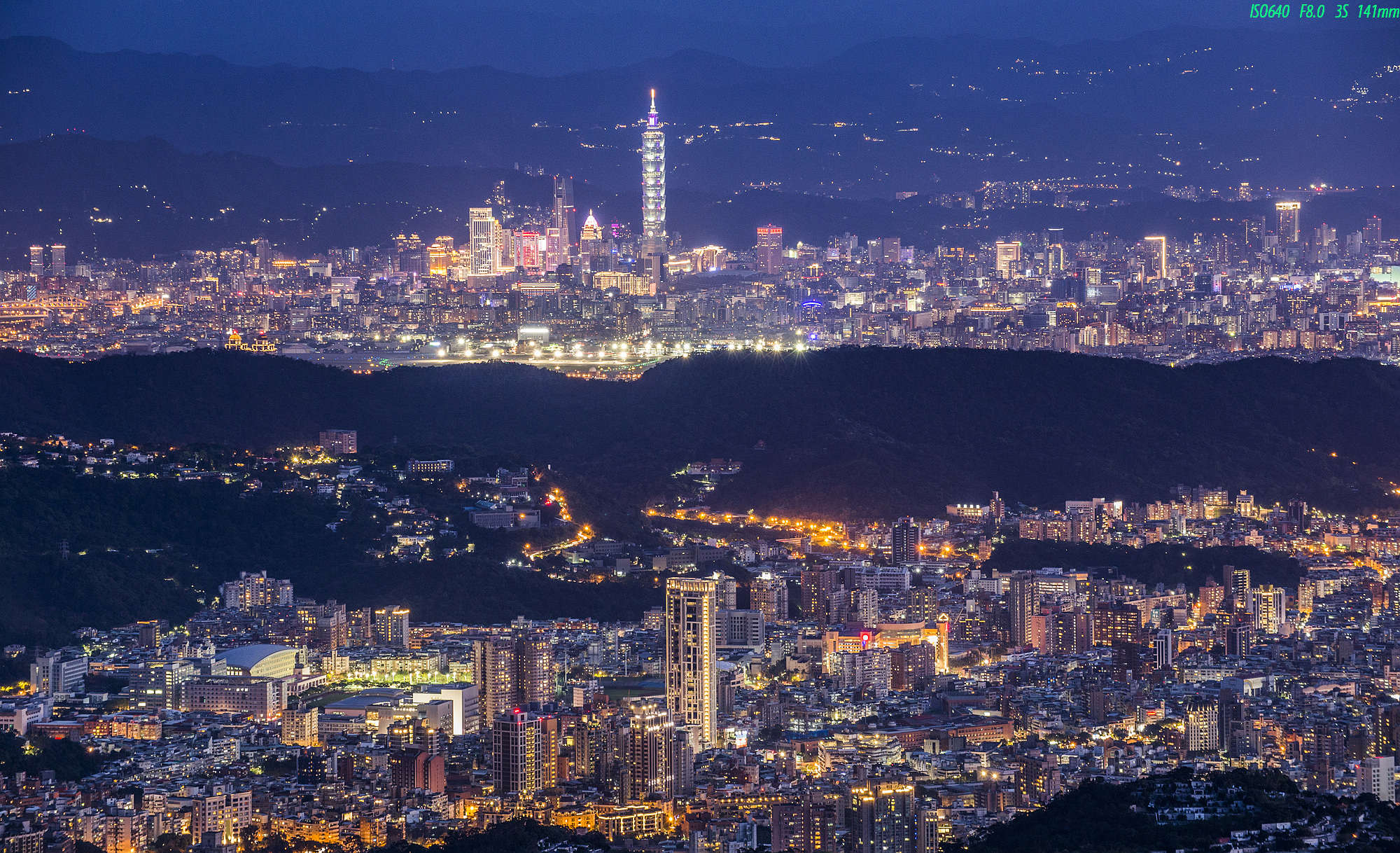 Taipei night cityscape in 2018